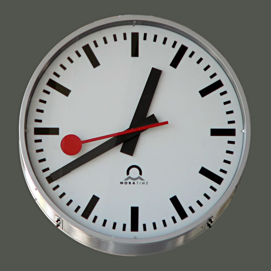 Clock in the main station in Zürich, Switzerland